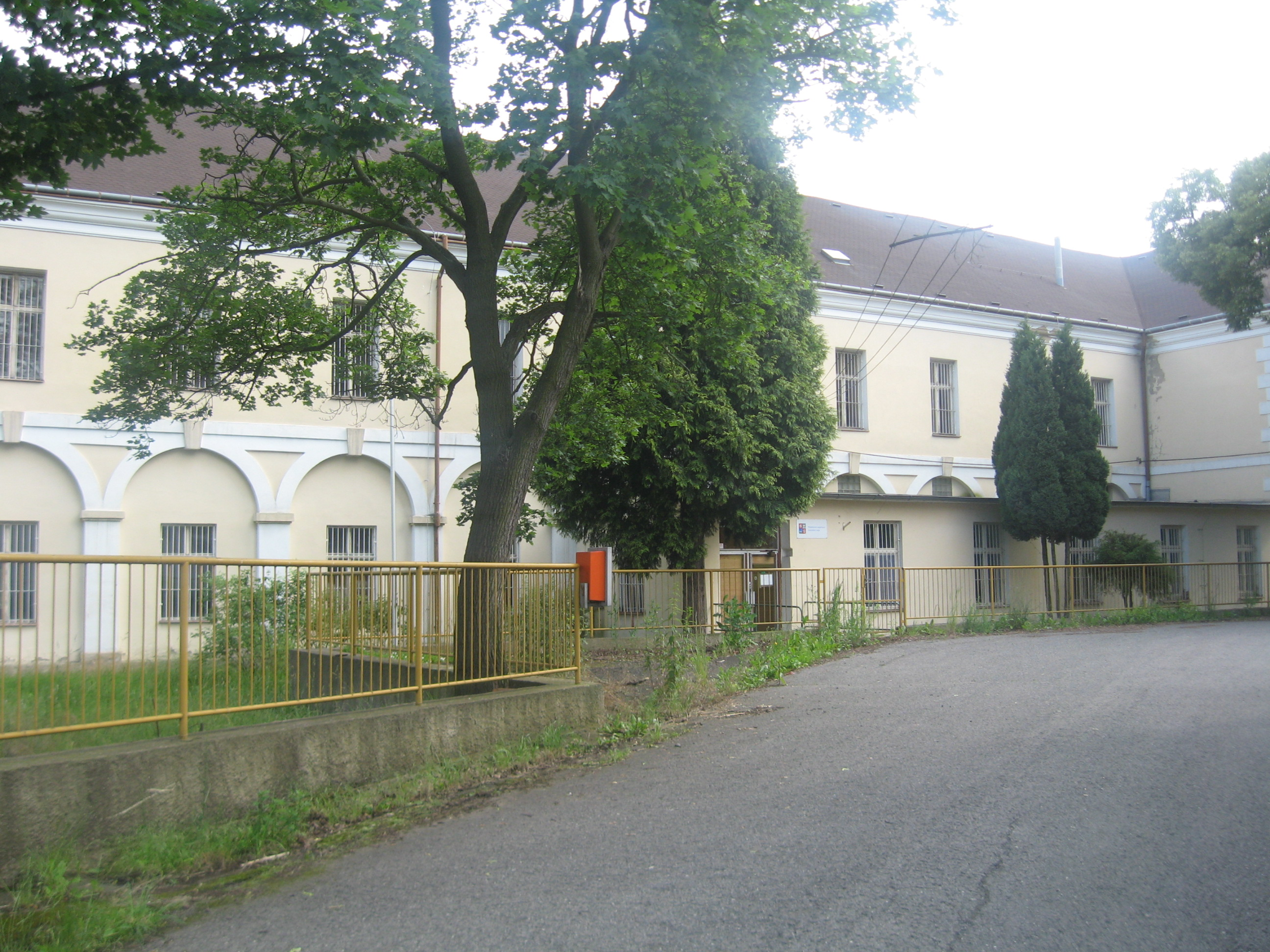 Hliňany castle